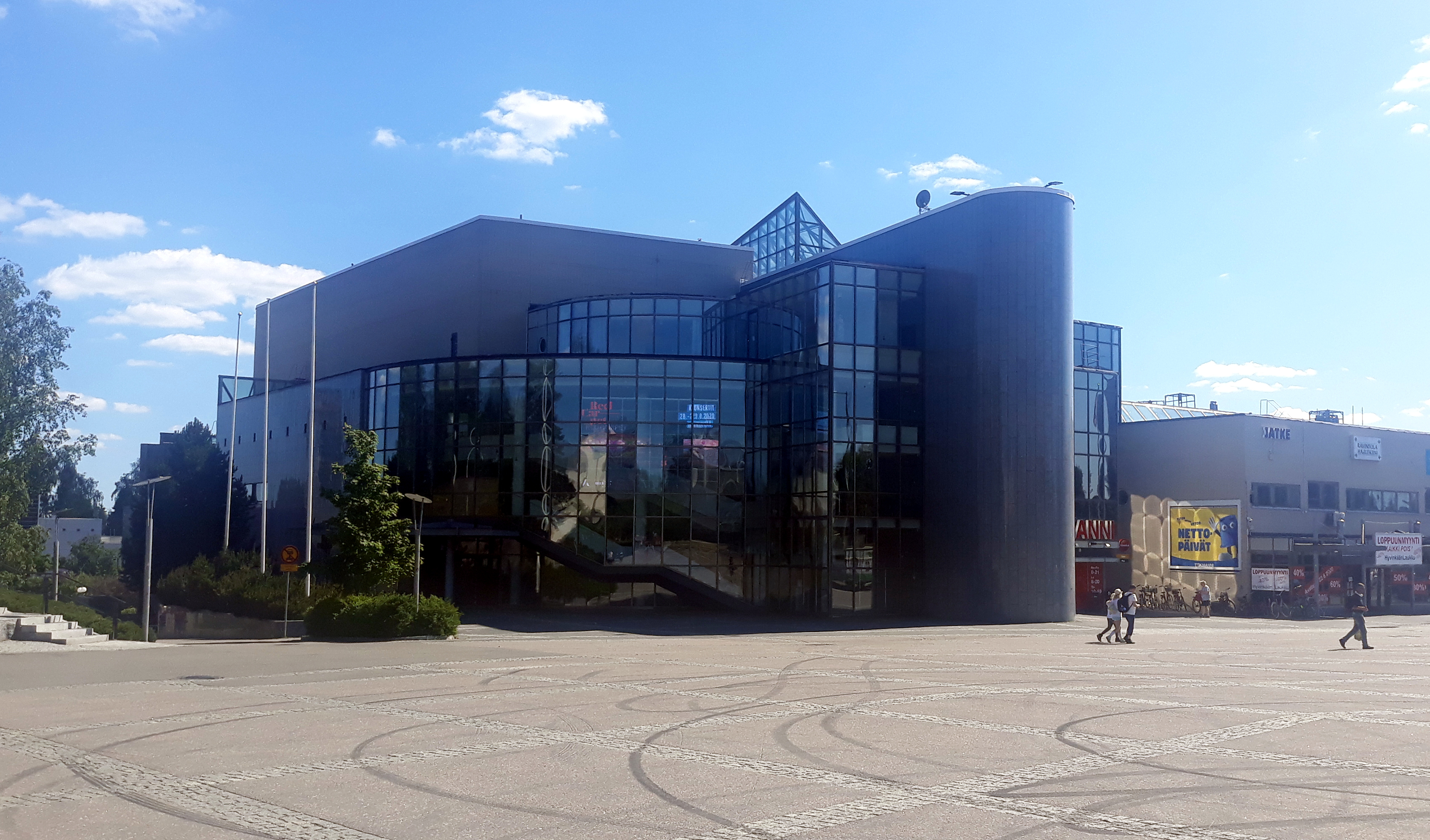 Hyvinkääsali concert hall, located next to Hyvinkää market square.